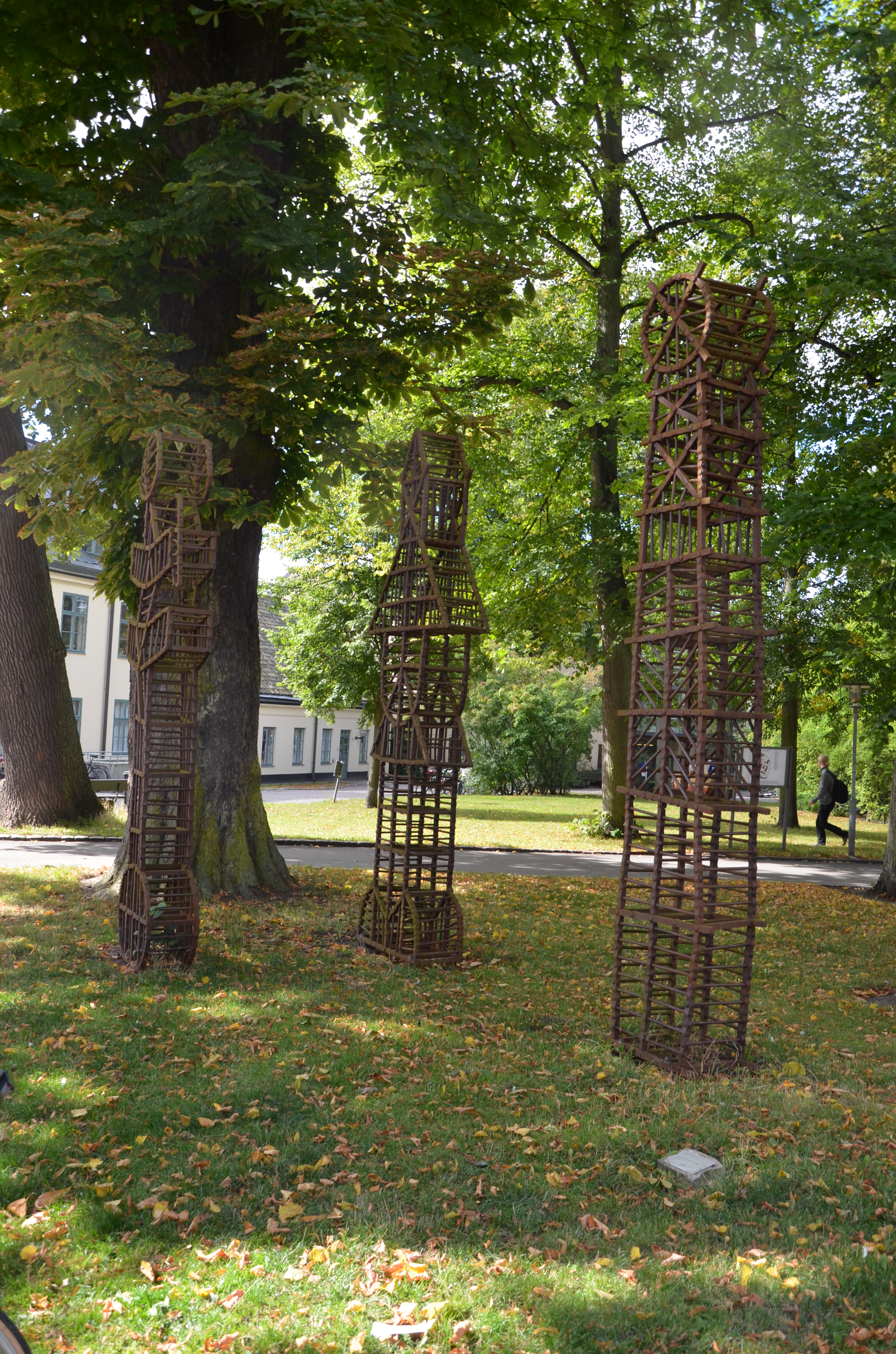 Jörgen Martinssons De tre parkväktarna. järnsmide,1982, Paradislyckan, gamla södra lasarettsområdet, Lund